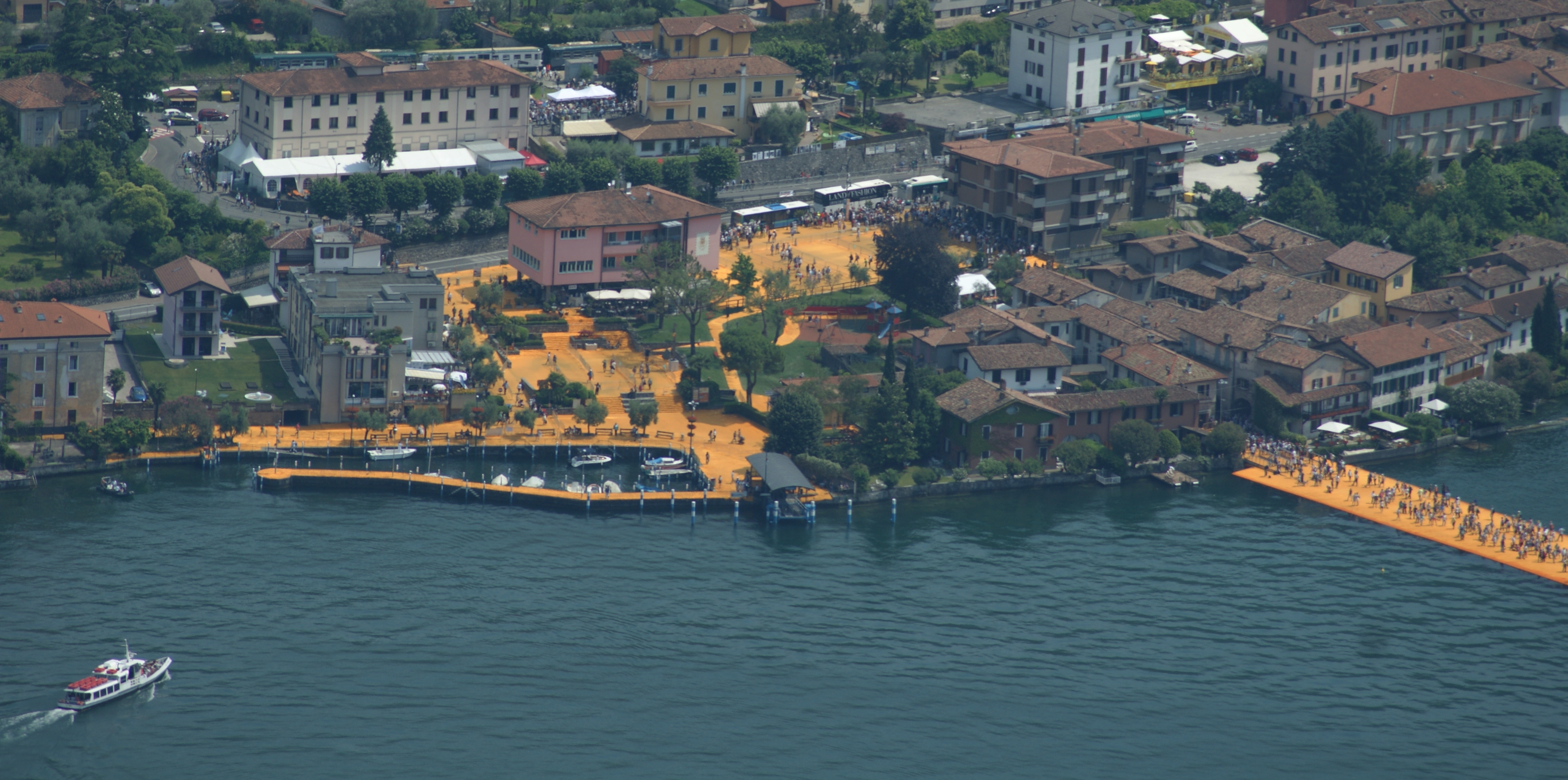 Mainland side (Sulzano) of The Floating Piers installation seen from the top of Monte Isola (Suantuario Madonna della Ceriola)